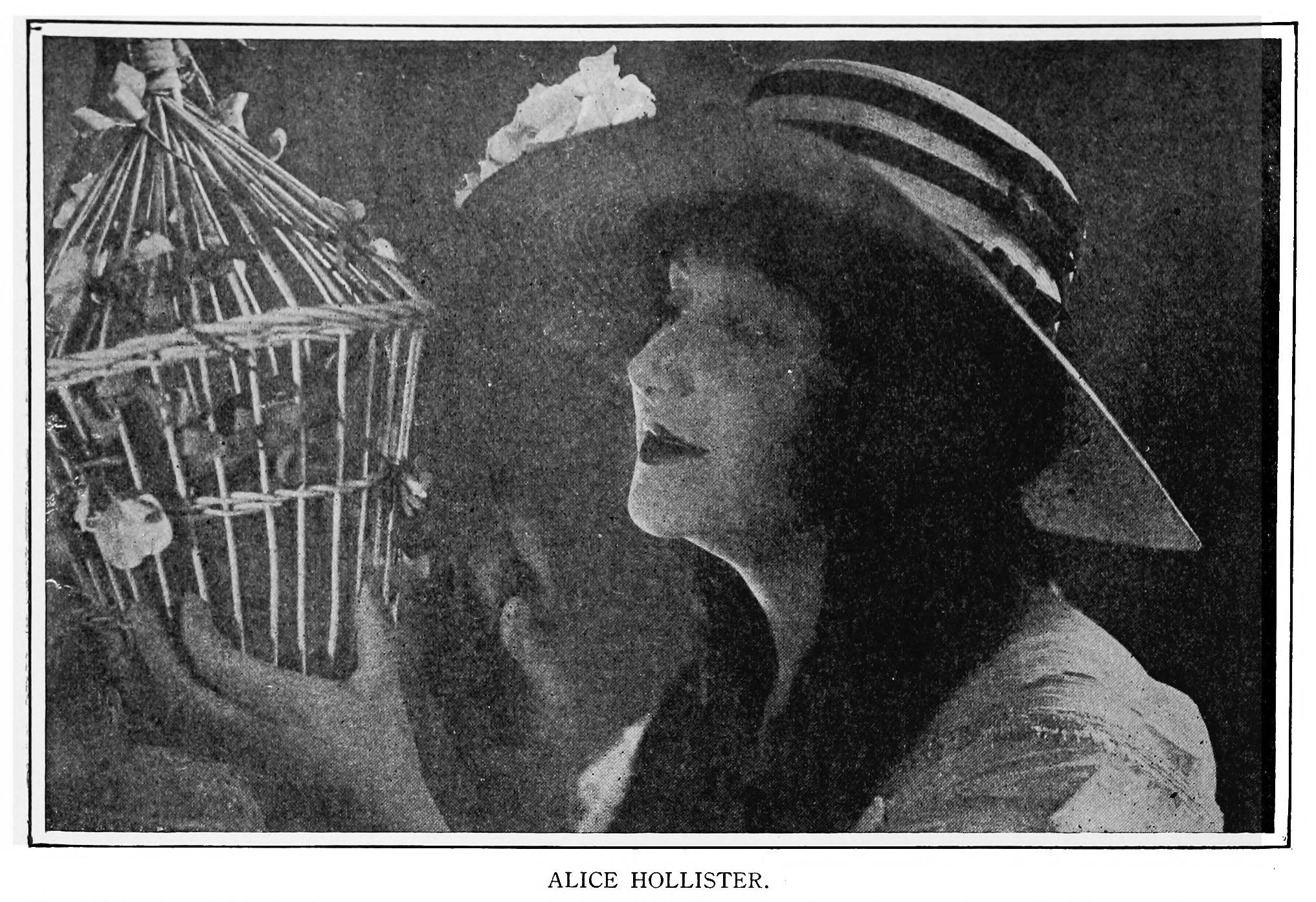 Alice Hollister